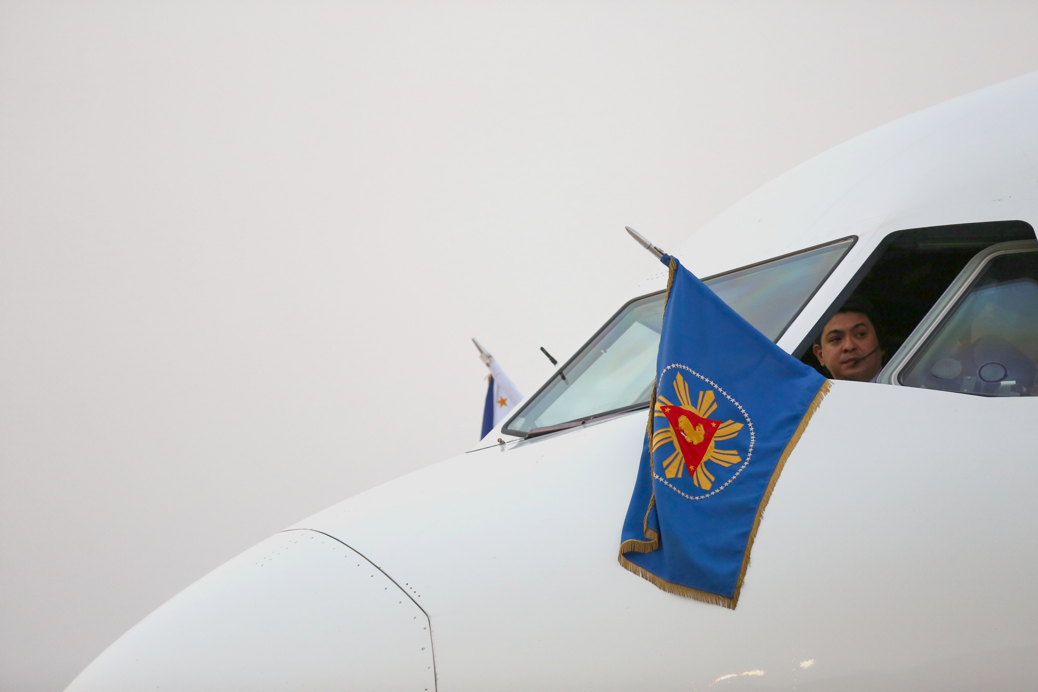 The flag carrying the seal of the Philippine President is hoisted outside the cockpit of Philippine Airlines Flight PR001, the aircraft carrying President Rodrigo Roa Duterte and the rest of the Philippines' delegation to the official visit in Myanmar. The President arrived in Nay Pyi Taw, Myanmar on March 19, 2017 to kick off his two-day visit.